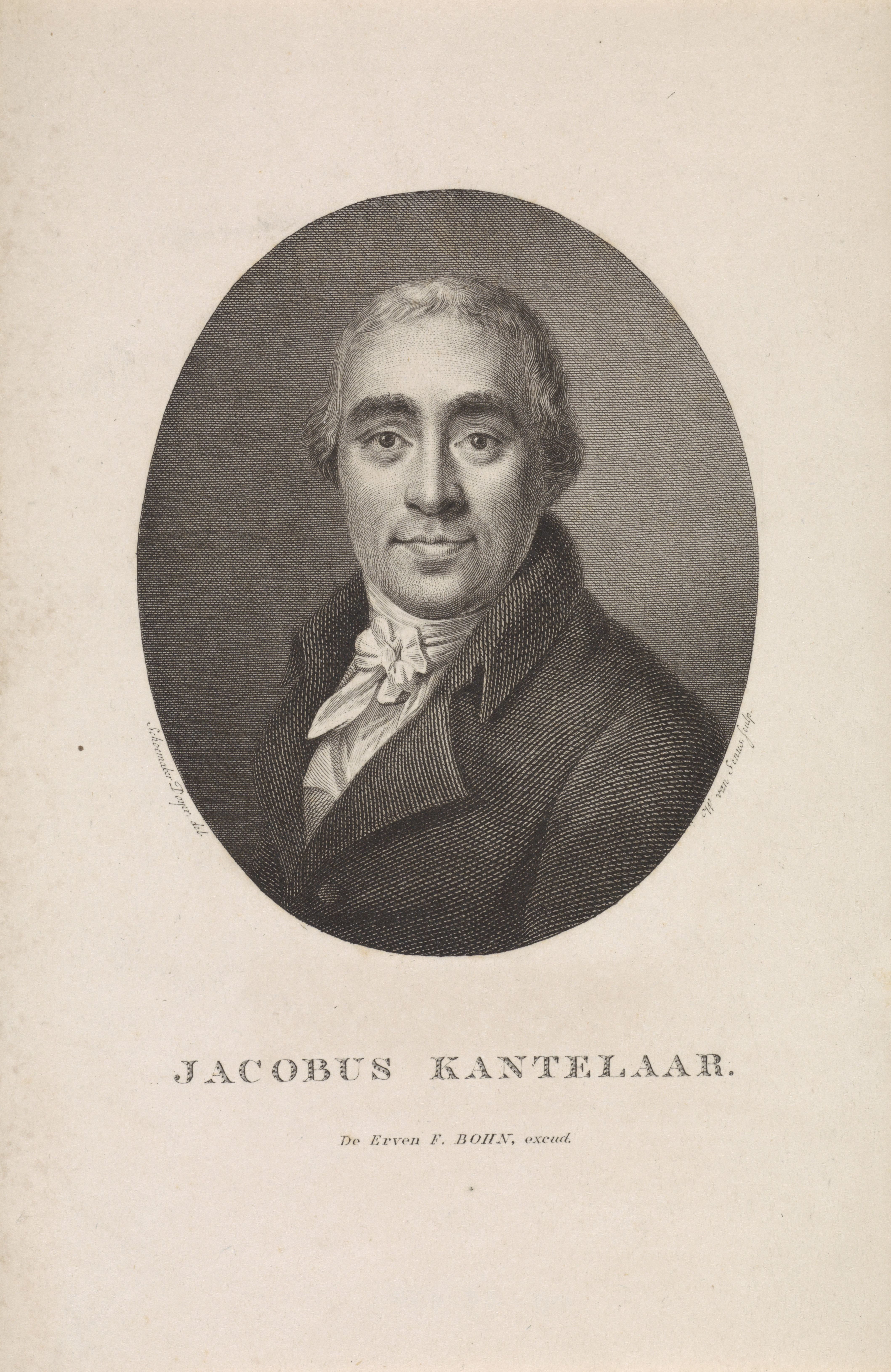 Portrait of Jacob Kantelaar, Dutch theologian, writer and politician (1759-1821)